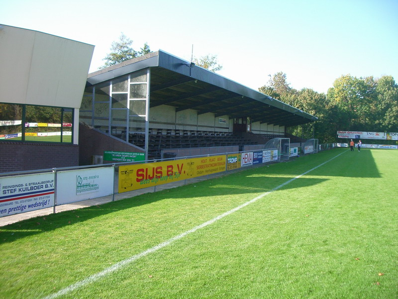 Tribune bij SVW'27